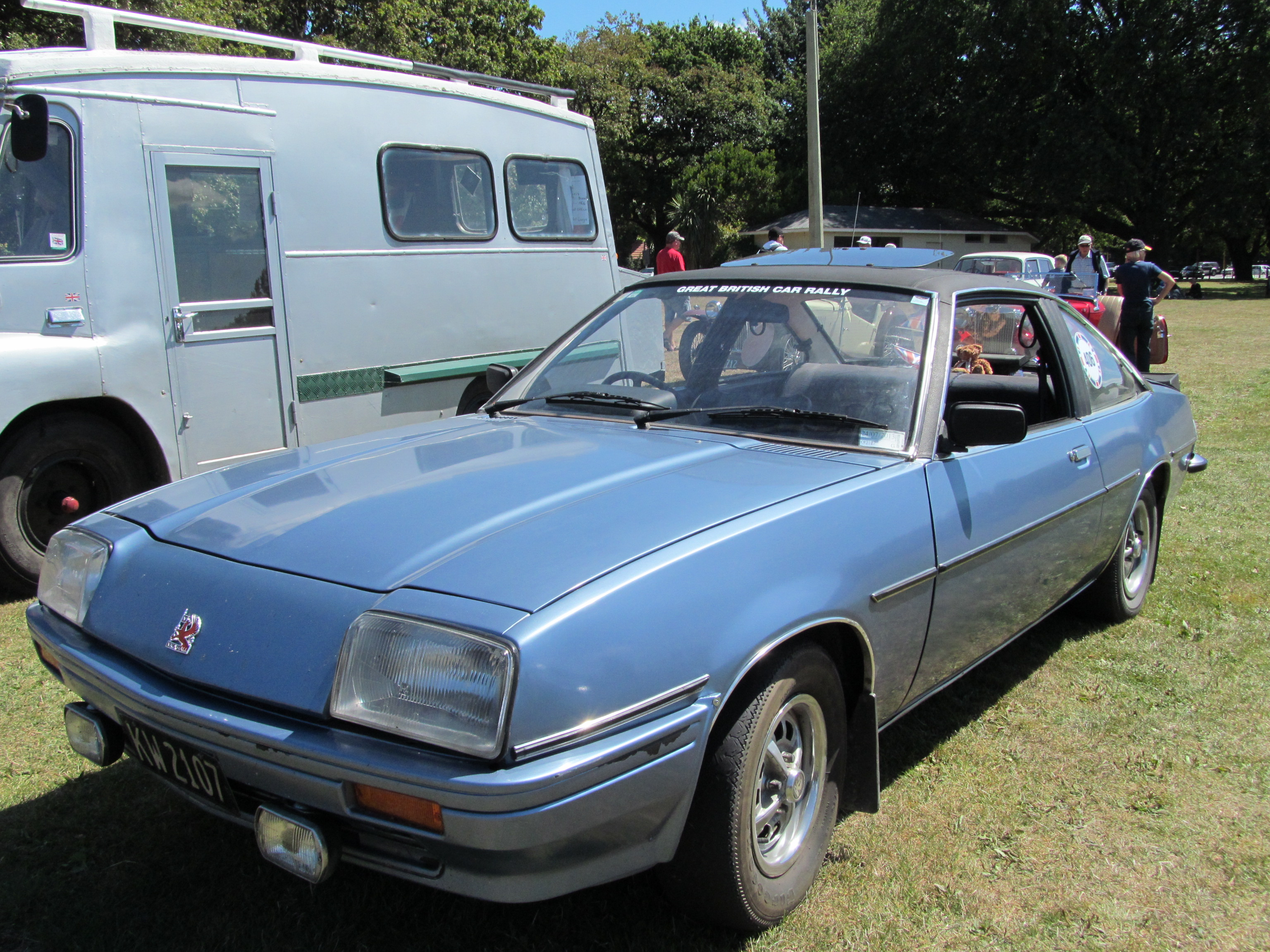 KW2107 I first saw this last night as it came into the Riccarton Racecourse car park for the finishing dinner of the 2013 Great British Car Rally, which began last Sunday (17 February) in Auckland and finished today (23 February) in Christchurch. To say my jaw hit the floor would be an extreme understatement - I literally couldn't believe I was seeing a Mk1 Cavalier in NZ, and in running order as well! I then caught up with the owner at the GBCR display in North Hagley Park earlier today and he also has two Vauxhall Fronteras, a Vectra SXi diesel, a Bedford HA van and this - he's right into modern Vauxhalls and models we didn't see here new (like the Cavalier and HA van). The bumper is off a Nissan Bluebird (a replacement as he couldn't find another chrome Cav bumper), otherwise it is in original condition. This is my favourite spot this year so far!